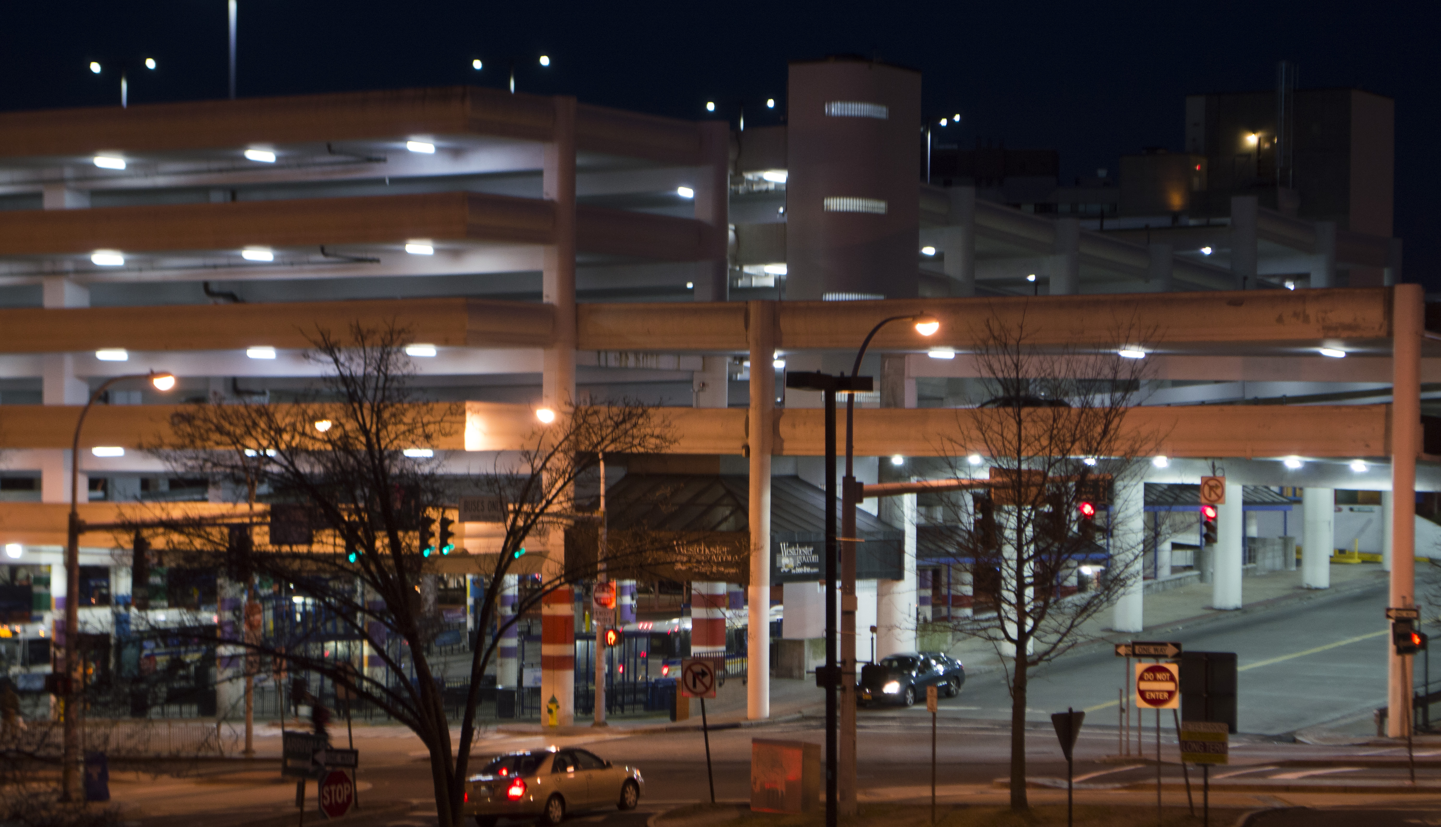 This picture shows what White Plains Trans Center looks like at night.